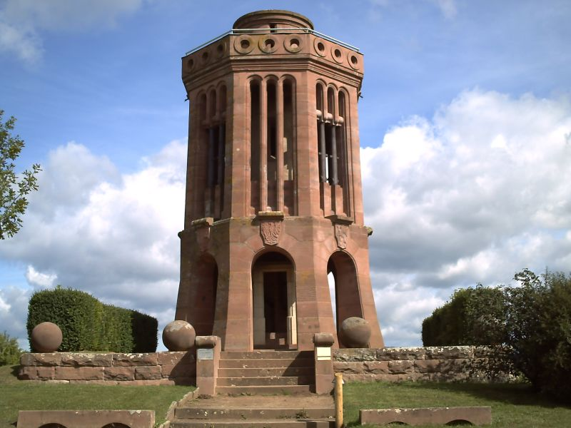 Memorial of the 1st Hessian Fieldartillerie Regiment No. 11 near Woerth in Alsace, in memory of the regiment's fallen at the battle of Woerth on August 6th, 1870, built 1913 upon plans by the Strasbourg architect Ernst Zimmerle.